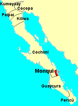 location map